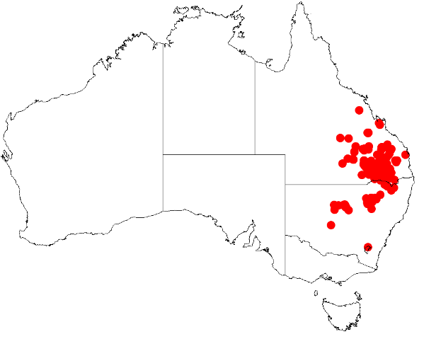 Acacia burrowii Occurrence data from Australasian Virtual Herbarium downloaded from on 8 December 2018